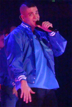 Mark Salling as Noah "Puck" Puckerman, performing "Somebody to Love" on the Glee Live! In Concert! tour.